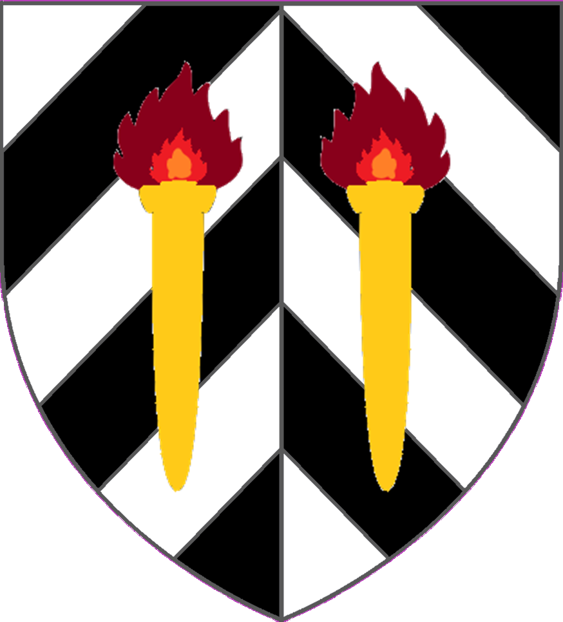 Shield of arms of The Viscount Eccles